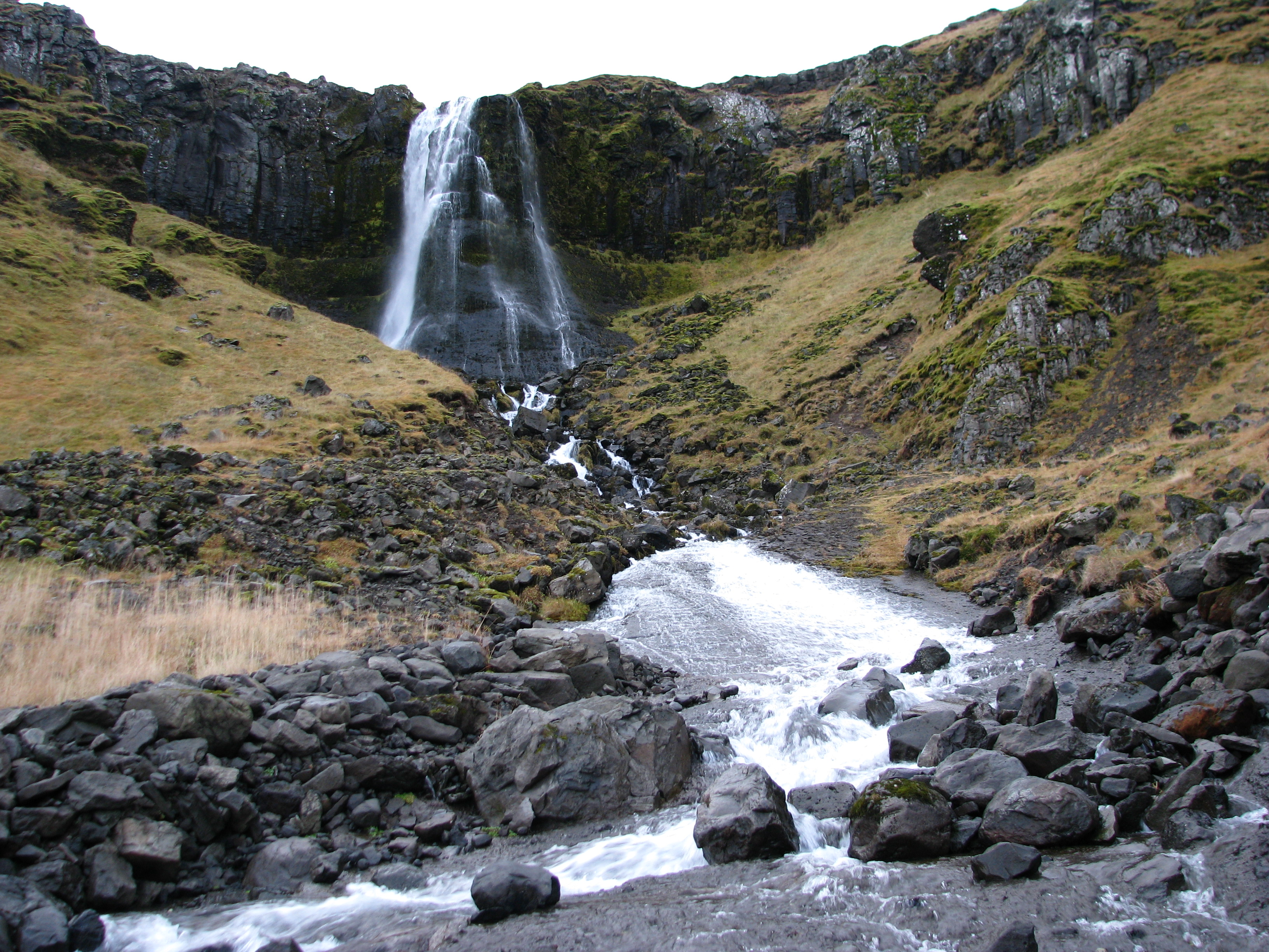 A waterfall in the town of Ólafsvík, Iceland.